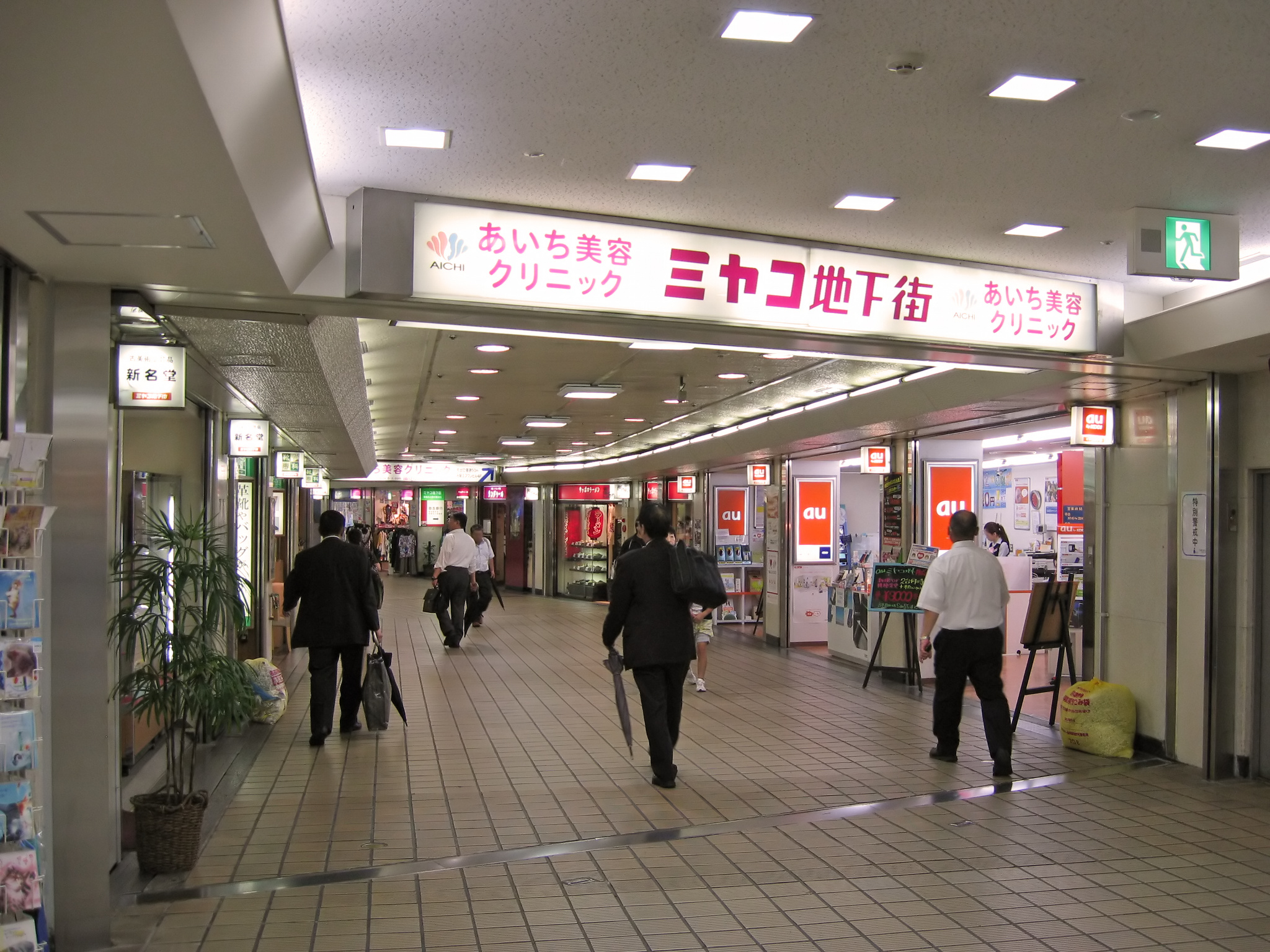 Miyako Underground Shopping Street in Nagoya, Aichi, Japan